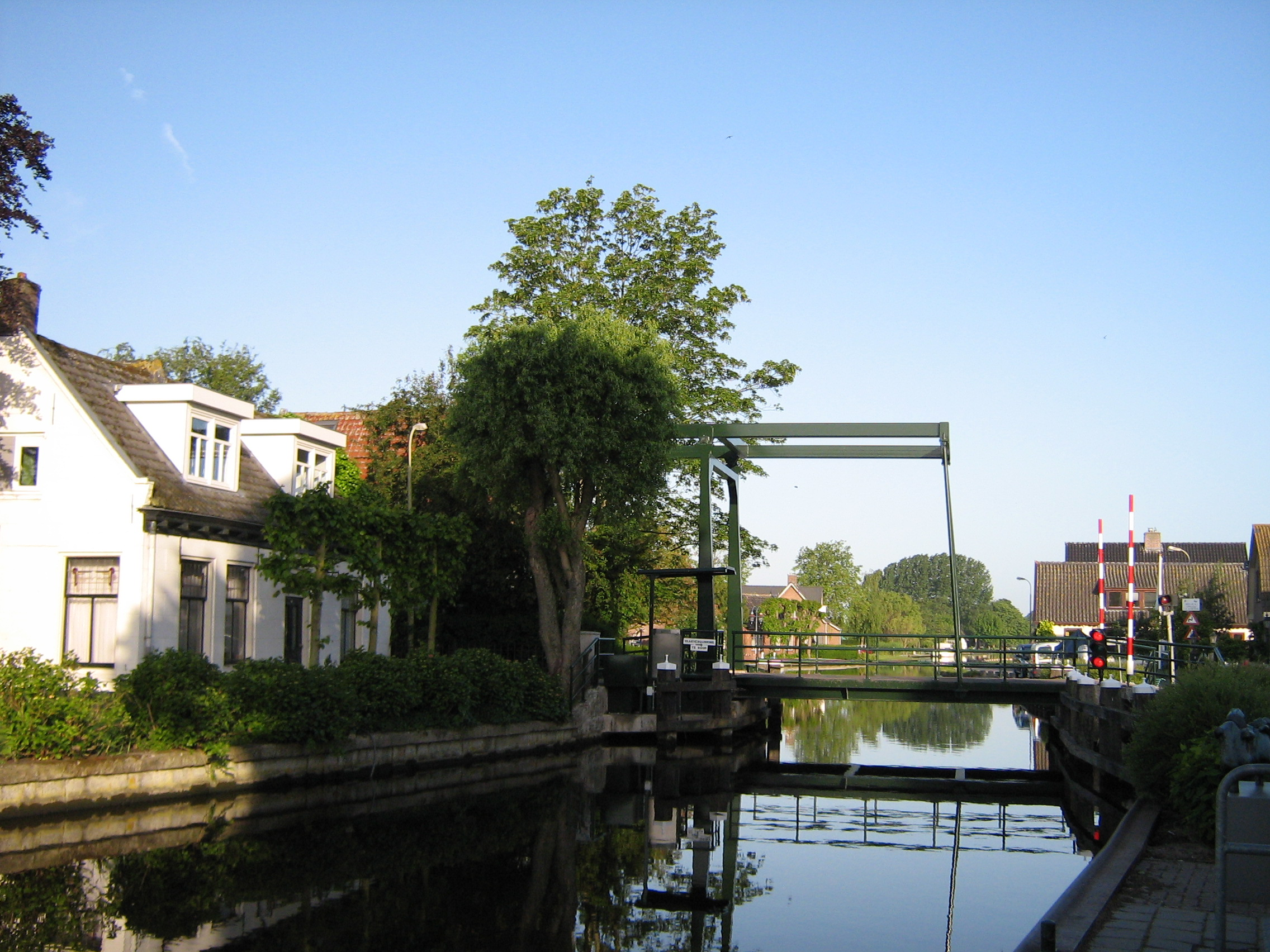 Photograph of the (only) bridge in the village of Bilderdam, which lies between Aalsmeer and Alphen aan de Rijn, in the Netherlands. This photograph was taken in a roughly westerly direction. It was made on the morning of May 20 2007 by the uploader, who has donated it to the public domain.